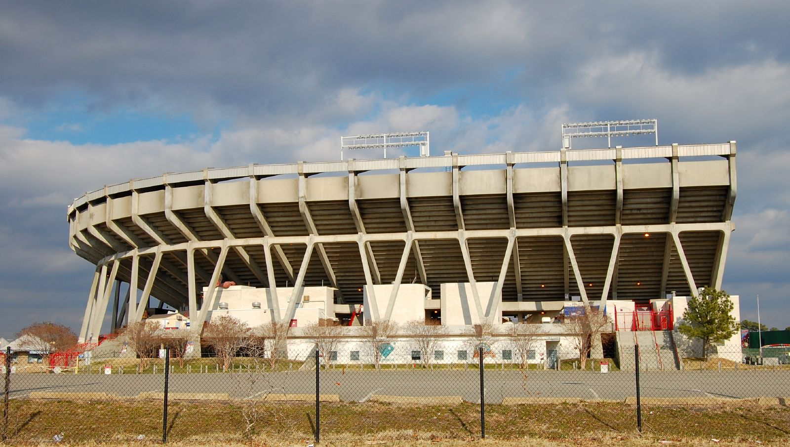 The Diamond